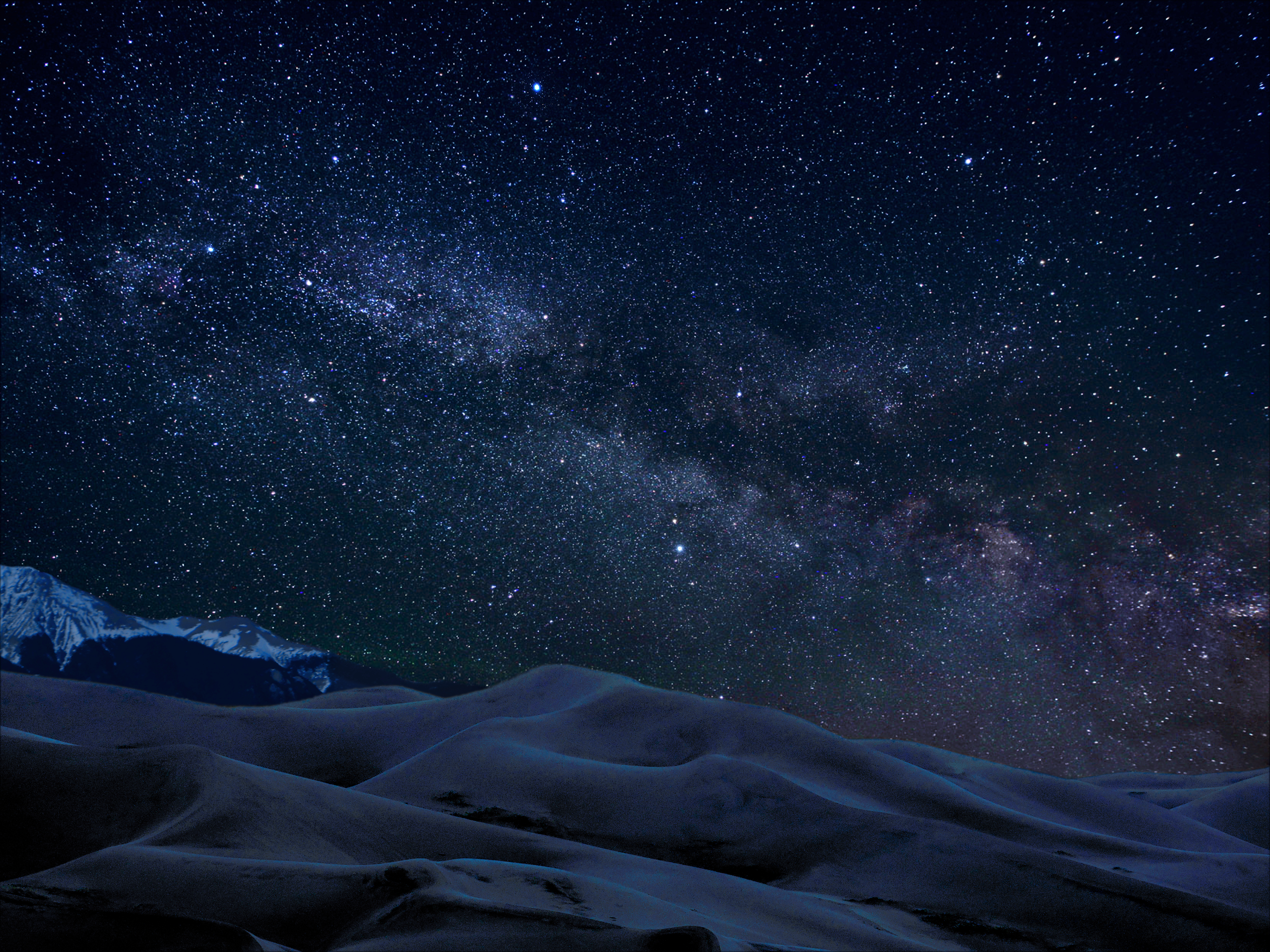 Milky Way over dunes in Great Sand Dunes National Park, Colorado, United States